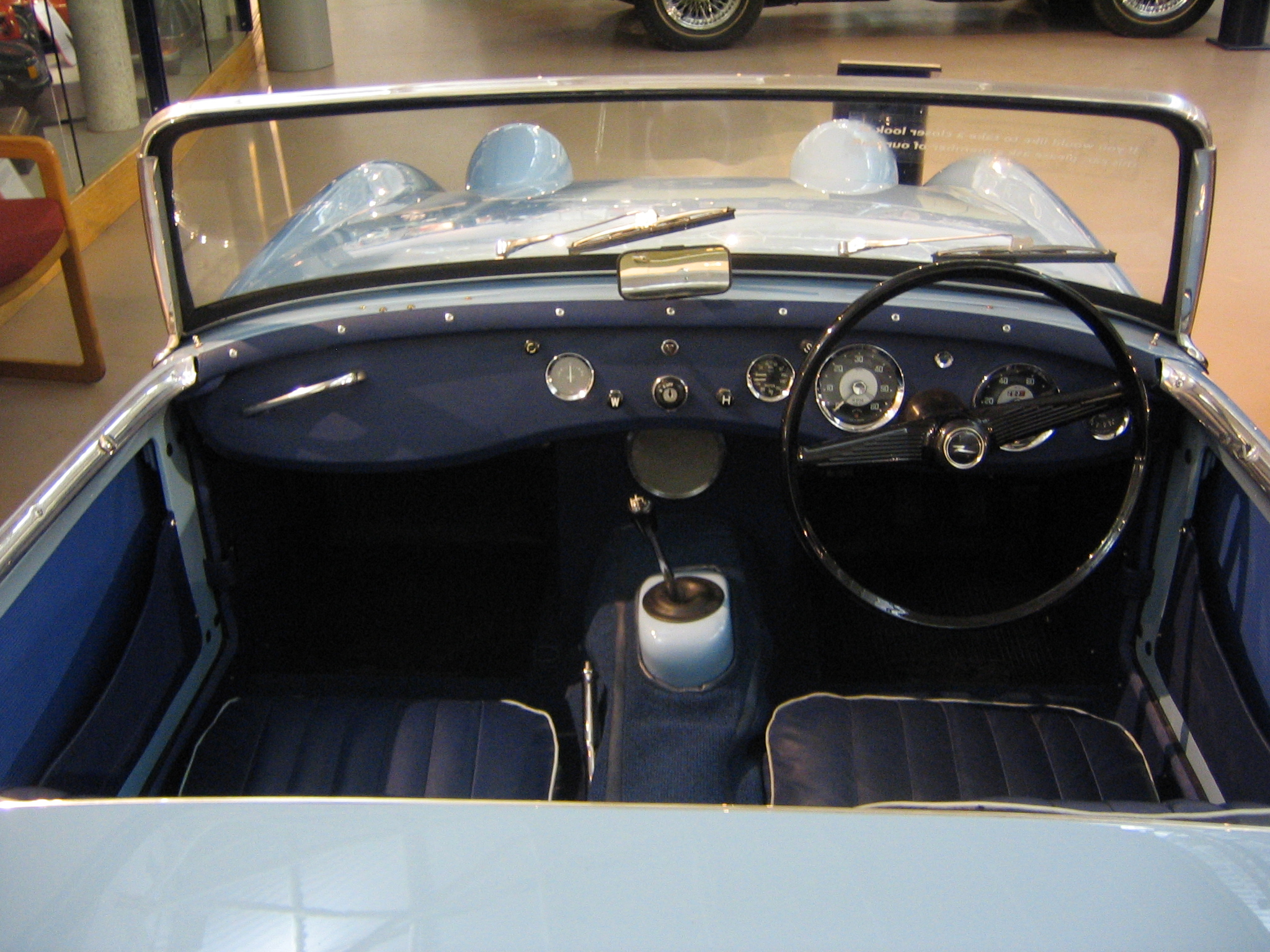 Austin Healey Frogeye sprite mark one interior